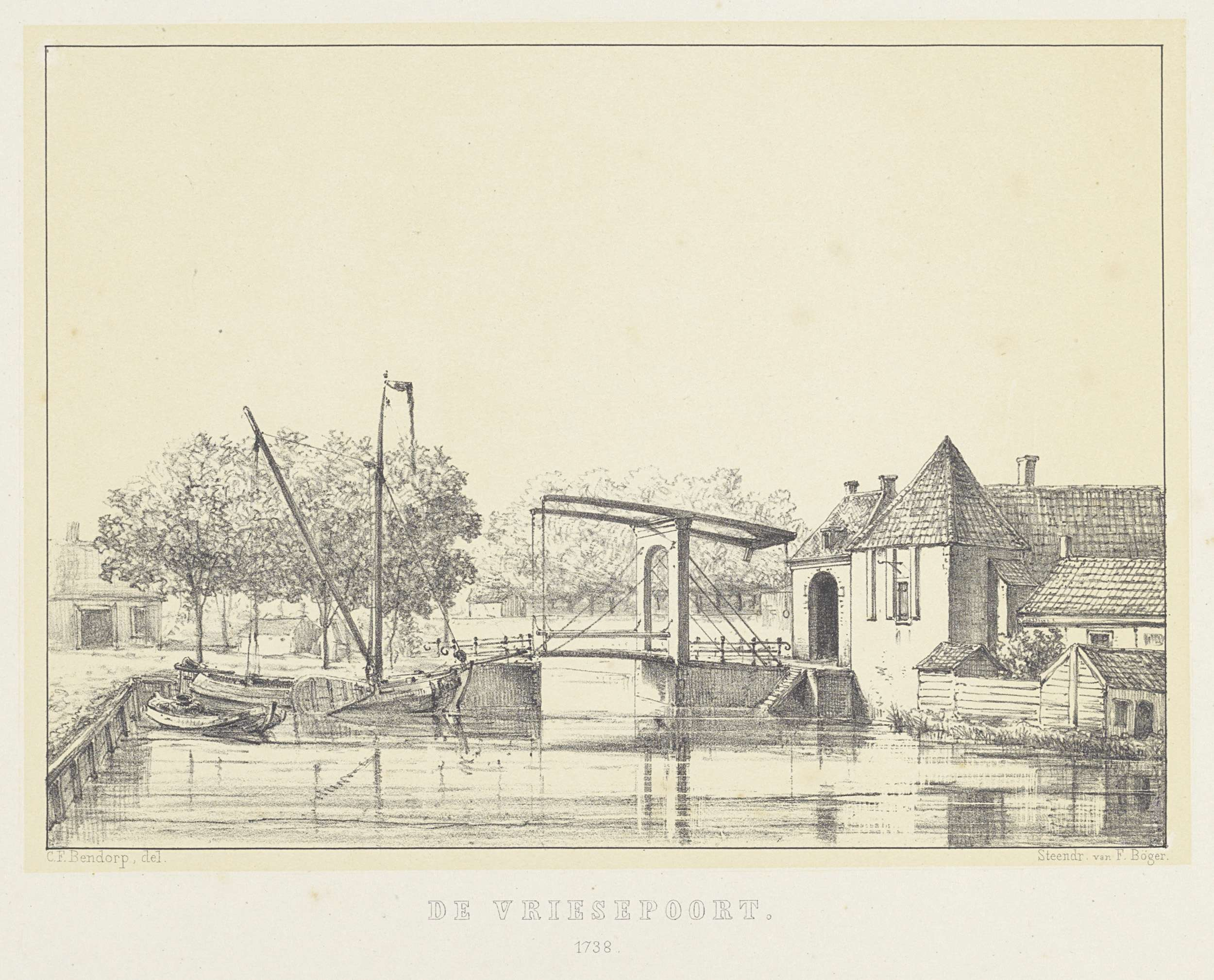 Collection Rijksmuseum